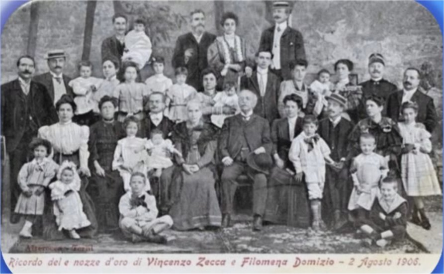 1906 Vincenzo Zecca, his wife and all the family